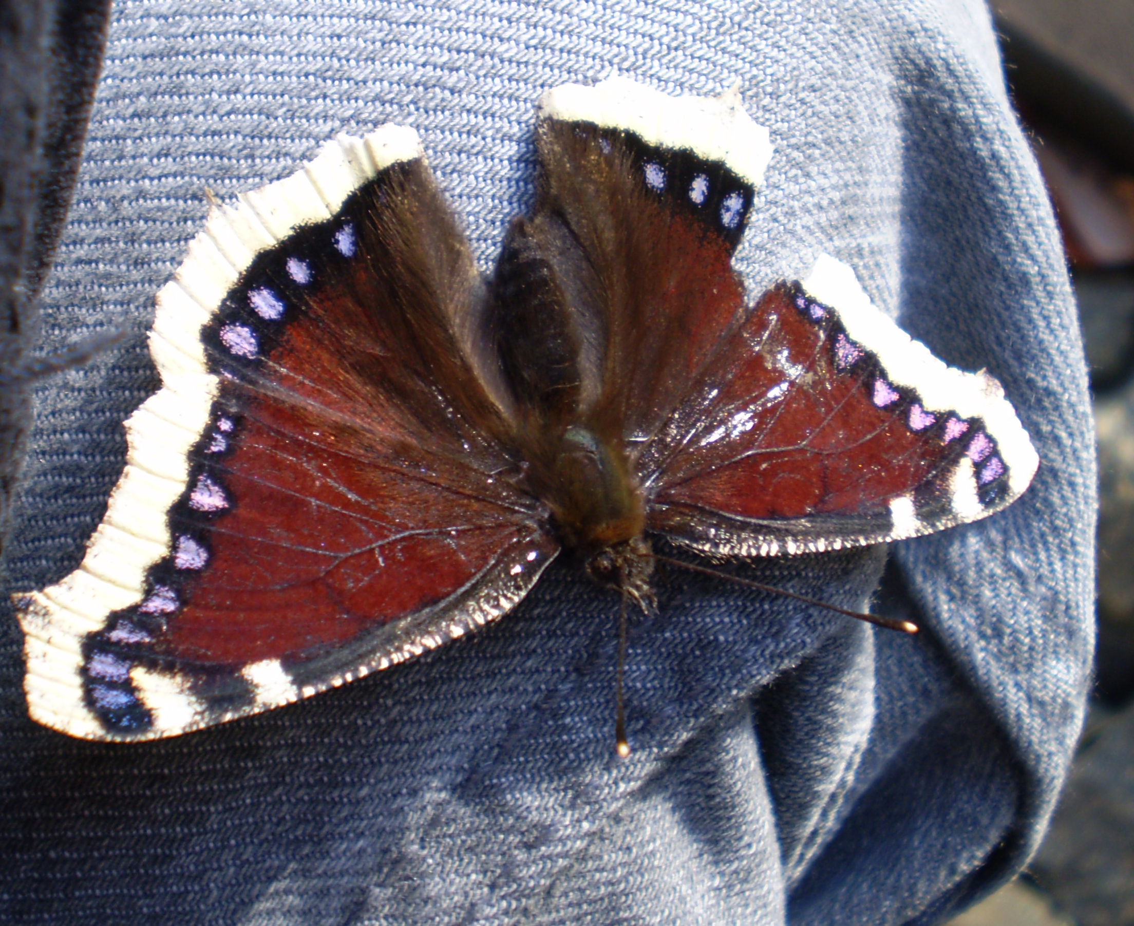 Camberwell beauty butterfly